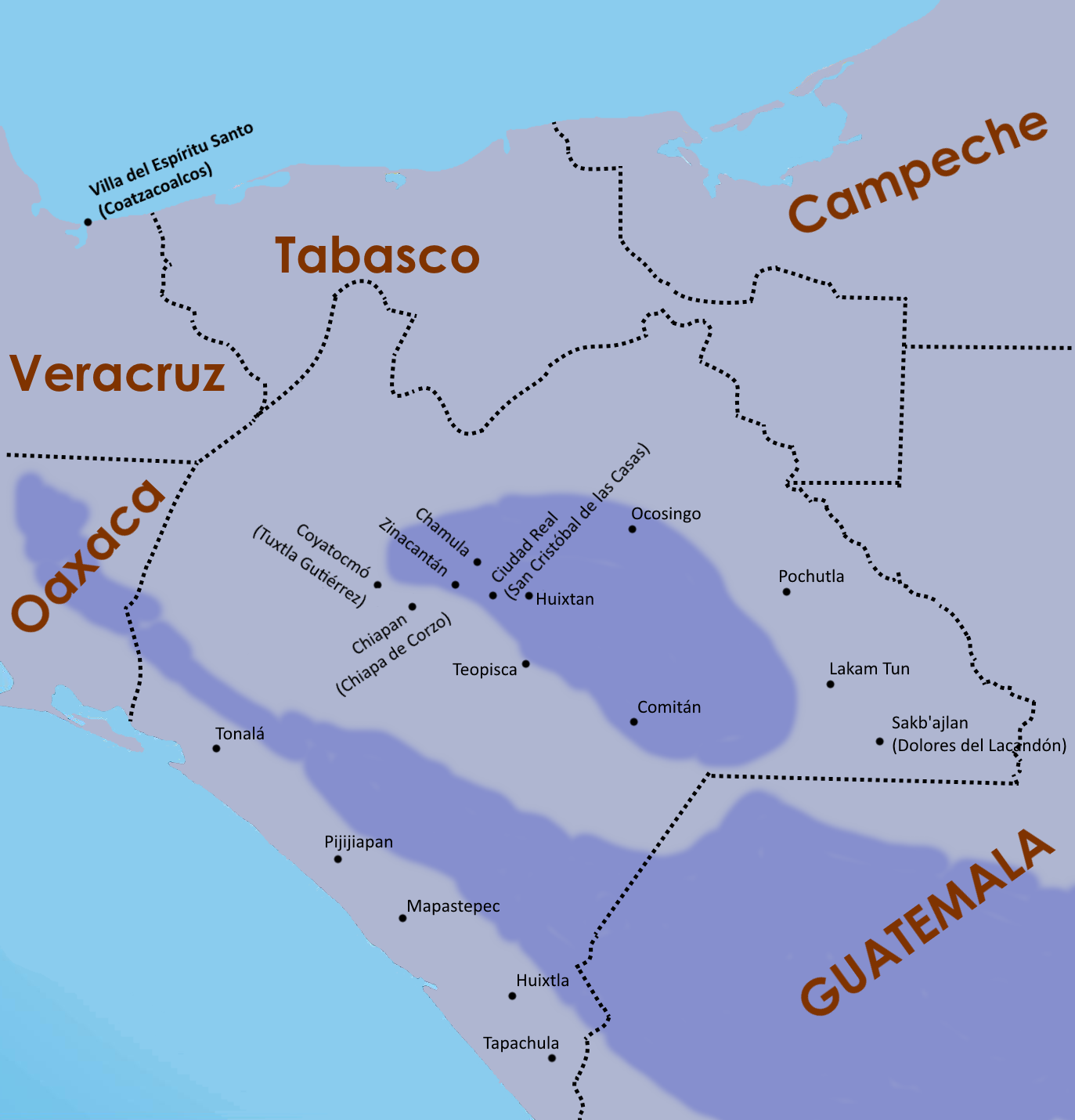 Map of Contact Period settlements in Chiapas, Mexico.